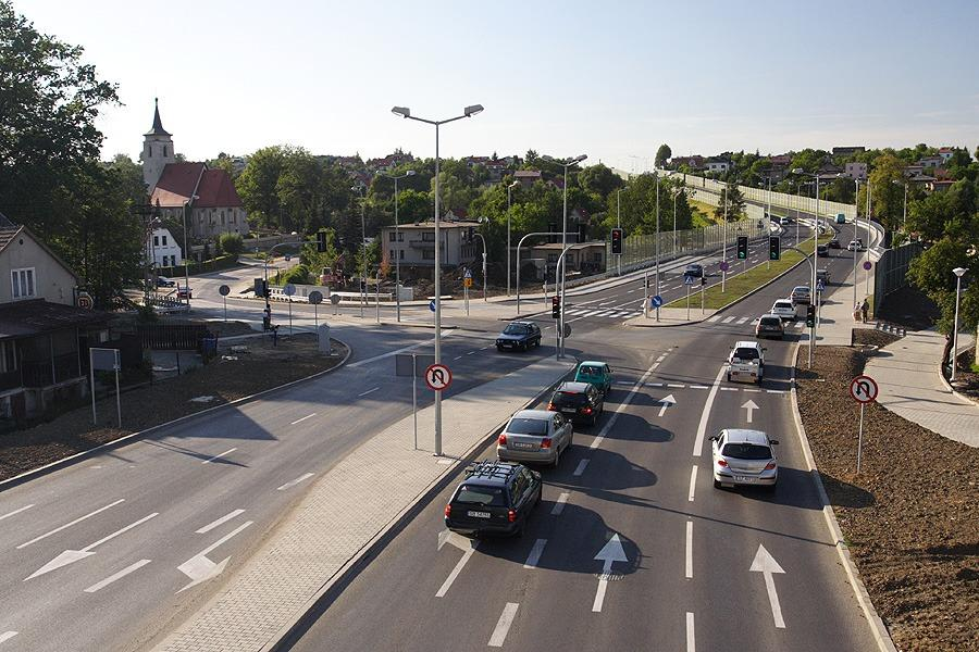 West Ring Road in Bielsko-Biala, Poland.